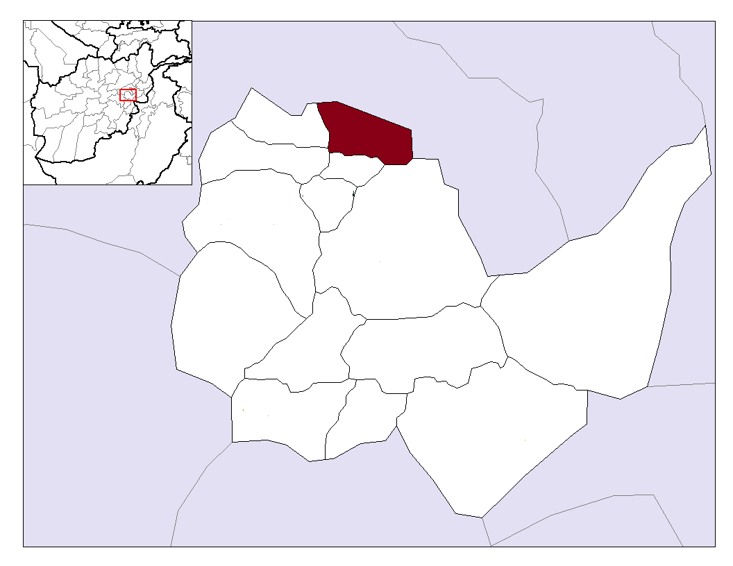 District locator in Kabul Province